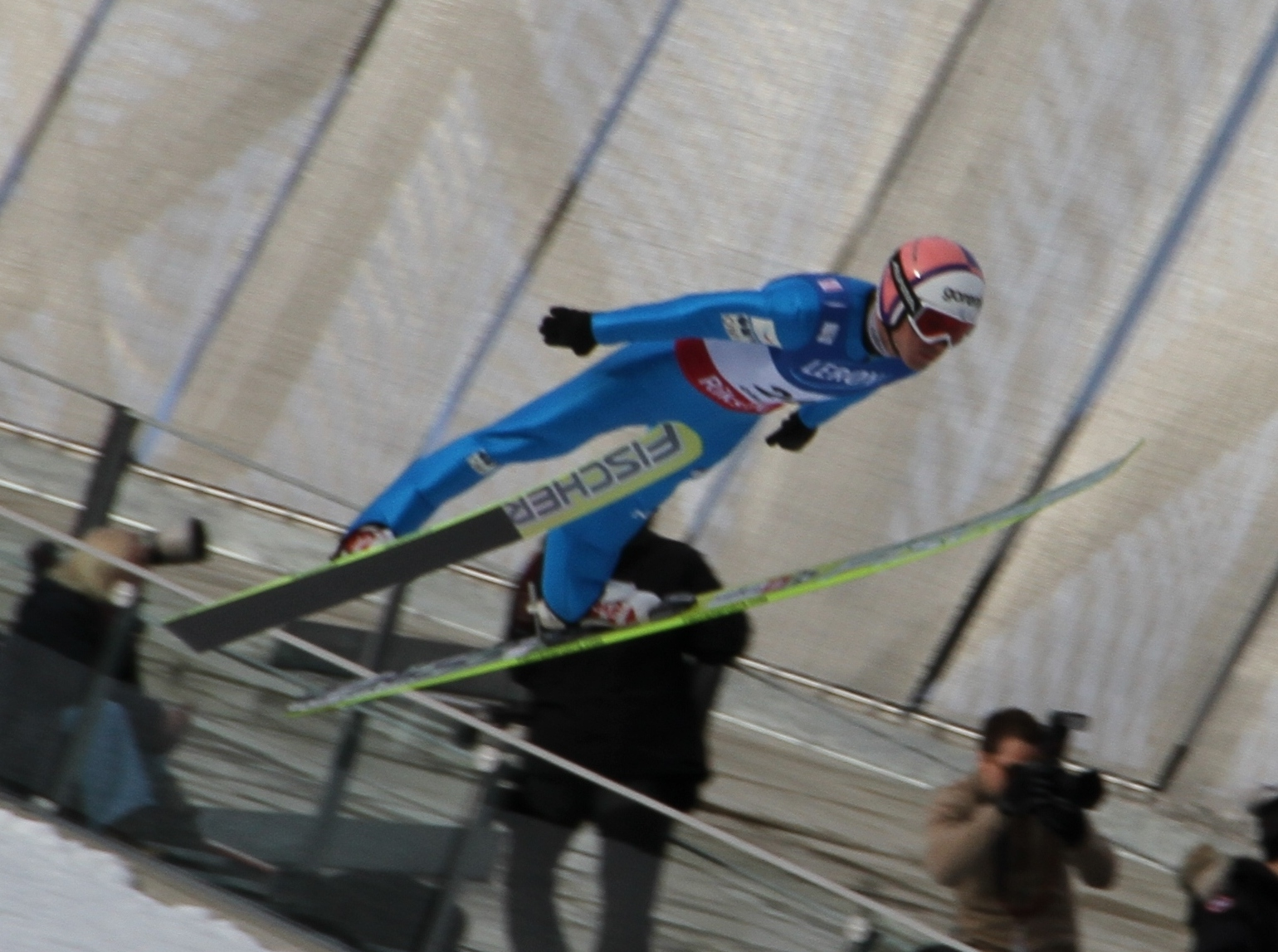 Holmenkollen, Oslo. FIS World Cup Ski Jumping, first round. March 11, 2012. This was the third last WC tournament of the season.